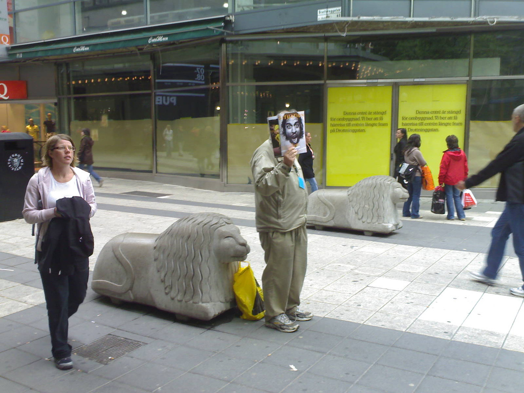 A Situation Sthlm (a street newspaper) seller in central Stockholm, Sweden in 2007.